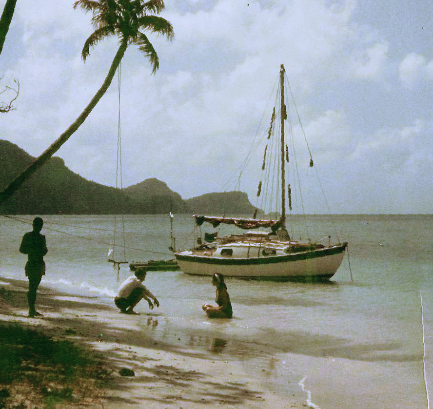 Photo taken by Simon Baddeley in Admiralty Bay, Bequia, British West Indies in 1966, now part of the independent country of St. Vincent & the Grenadines. The figures in the photo are, from left, Isiaih, Clay (both crew of circumnavigating Yacht John Hanna) and Susanna Pulford - crew with Simon of WW 22 No 68 - "Young Tiger" - designed by Denys Rayner. in 2007 'Young Tiger' - now over 40 years old - was still being sailed in the Washington DC area of N.America, though her current owner, John Coyle, told me on 10 March 2007 that she is on a trailer in Frederick, Maryland, and that he intends to take her further north to Maine en: Simon Baddeley 07:51, 13 March 2007 (UTC)